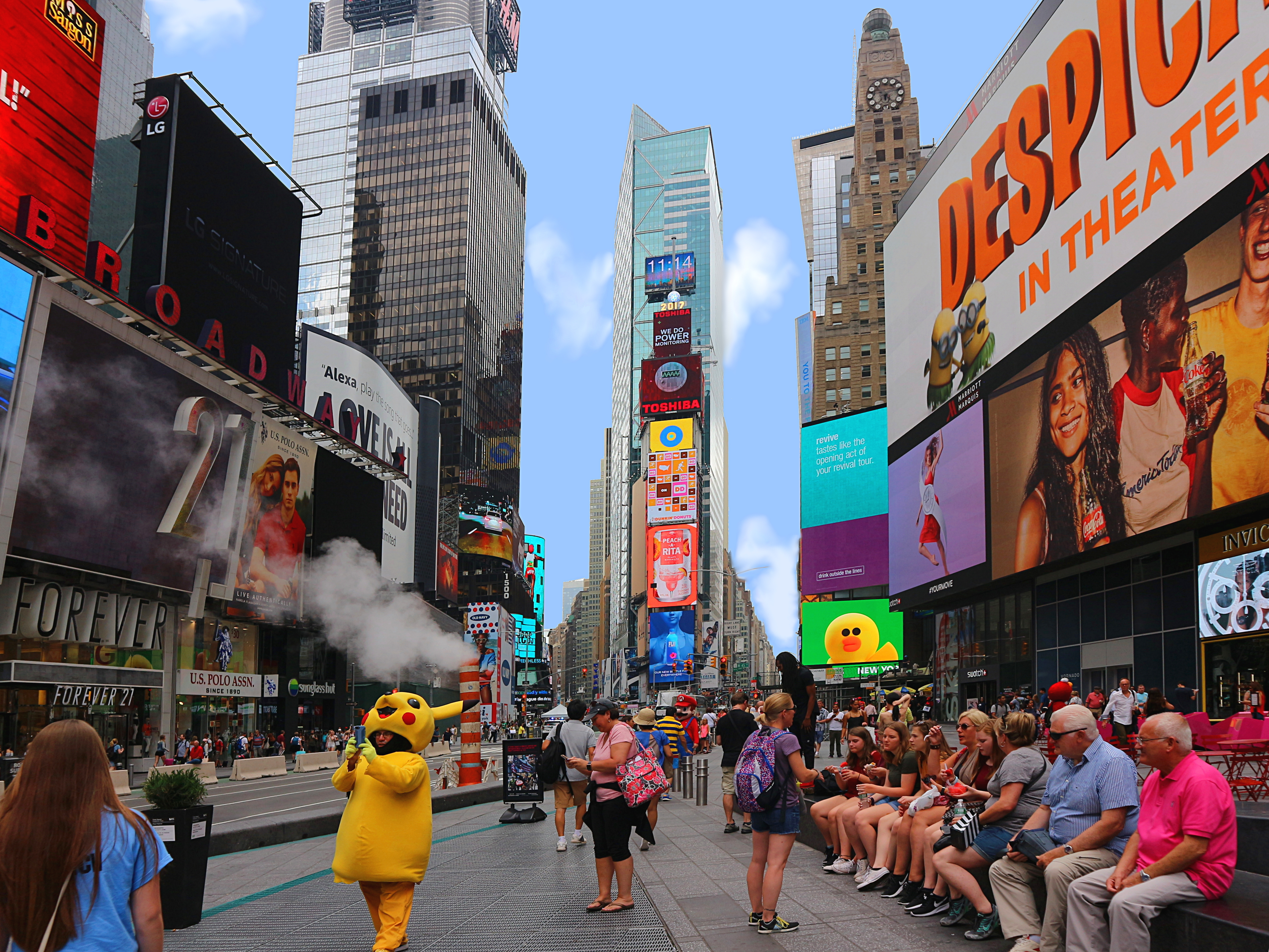 In the crowd of tourists in Times Square, Manhattan, NY